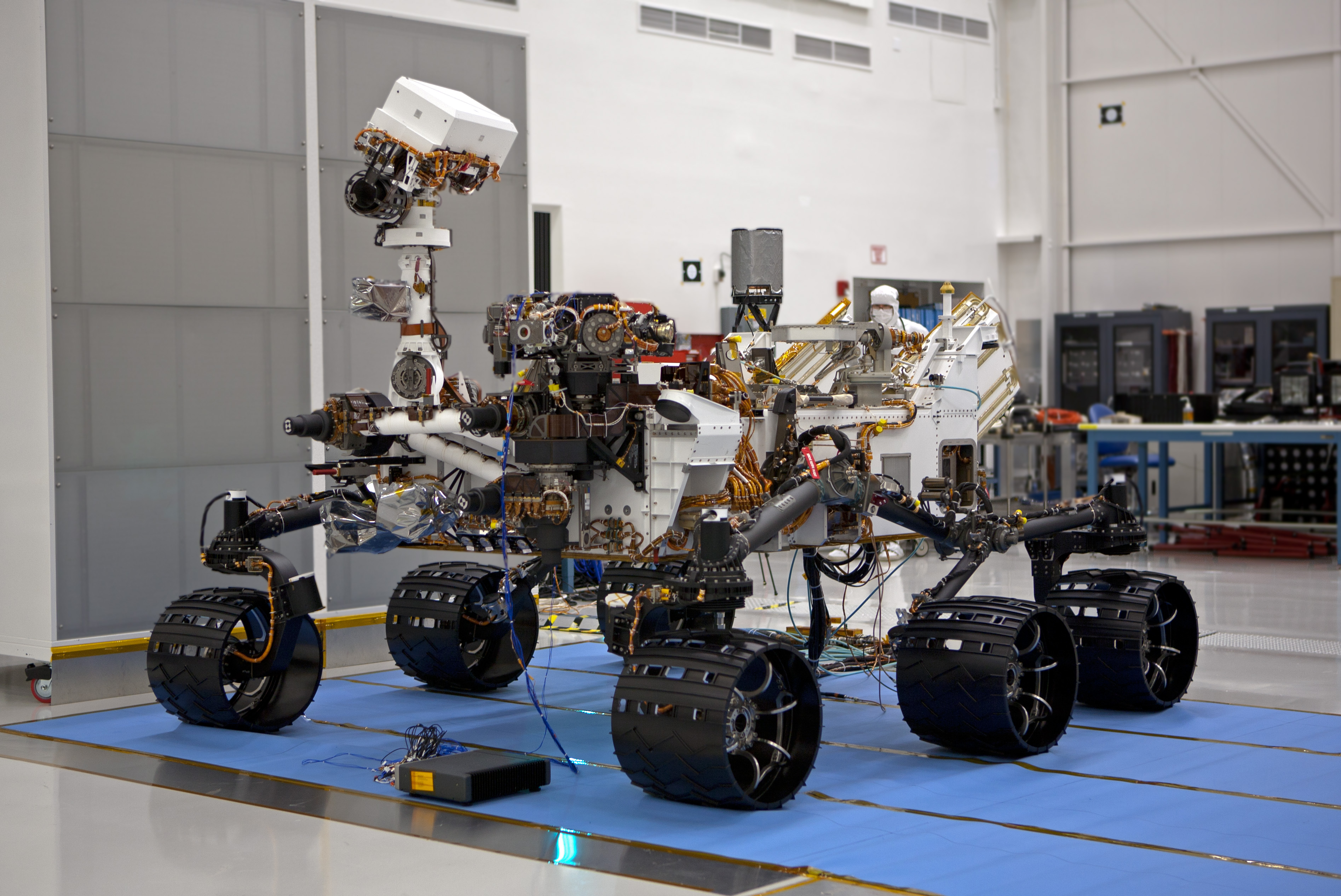 The image was taken May 26, 2011, in Spacecraft Assembly Facility at NASA's Jet Propulsion Laboratory in Pasadena, Calif. The rover was shipped to NASA's Kennedy Space Center, Fla., on June 22, 2011. The mission is scheduled to launch during the period Nov. 25 to Dec. 18, 2011, and land the rover Curiosity on Mars in August 2012. Researchers will use tools on Curiosity to study whether the landing region has had environmental conditions favorable for supporting microbial life and for preserving clues about whether life existed.